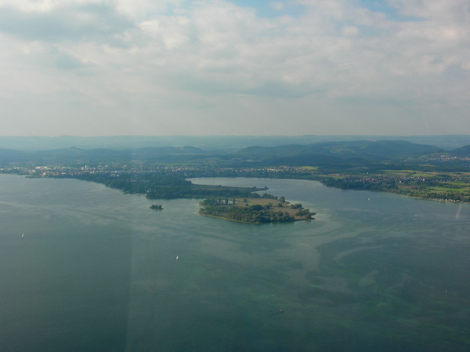 Germany, Baden-Württemberg, aerial view of Zellersee with Radolfzell in the background